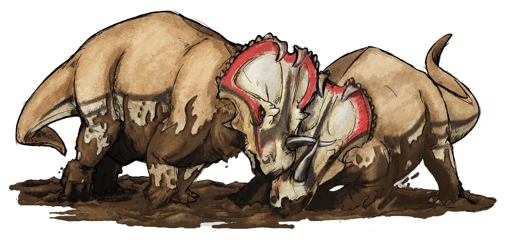 Centrosaurus (SEN-tro-sawr-us) meaning "pointed lizard" (from Greek kentron/κεντρον = "point or prickle" + sauros/σαυρος = "lizard"), in reference to the hornlets on its frill, but not as is often stated to the (at the moment of naming unknown) horn on its nose, was a herbivorous ceratopsid dinosaur from the late Cretaceous period of North America about 75 million years ago. The first discovery of this species was in Alberta, Canada.